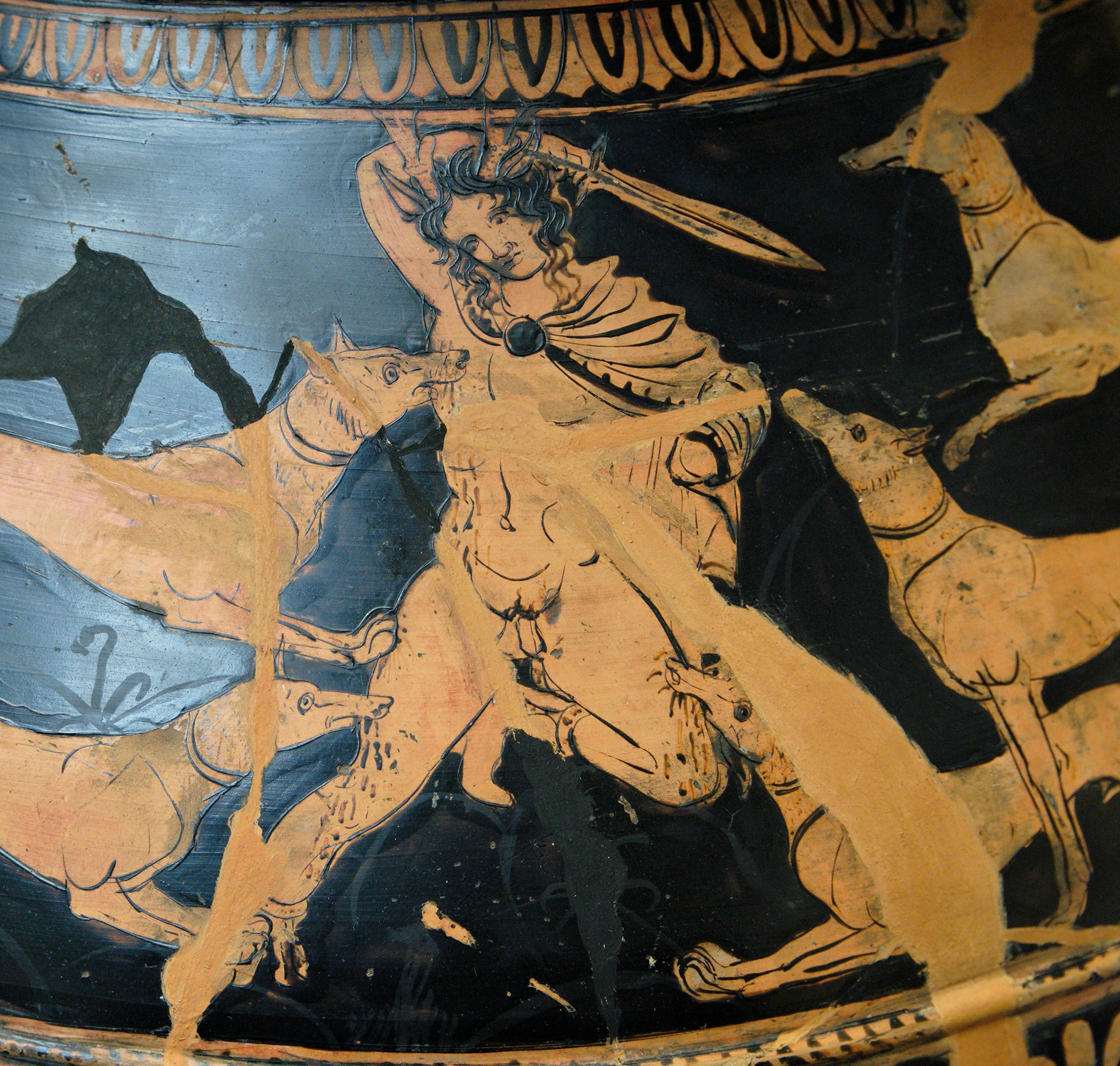 Actaeon attacked by his hounds. Detail from a Lucanian red-figure nestoris, Metaponto, ca. 390-380 BC. From the Basilicata.